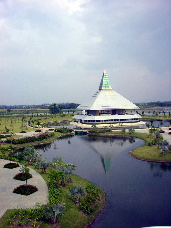 Shinnawatr University, Pathumthani campus, Thailand.